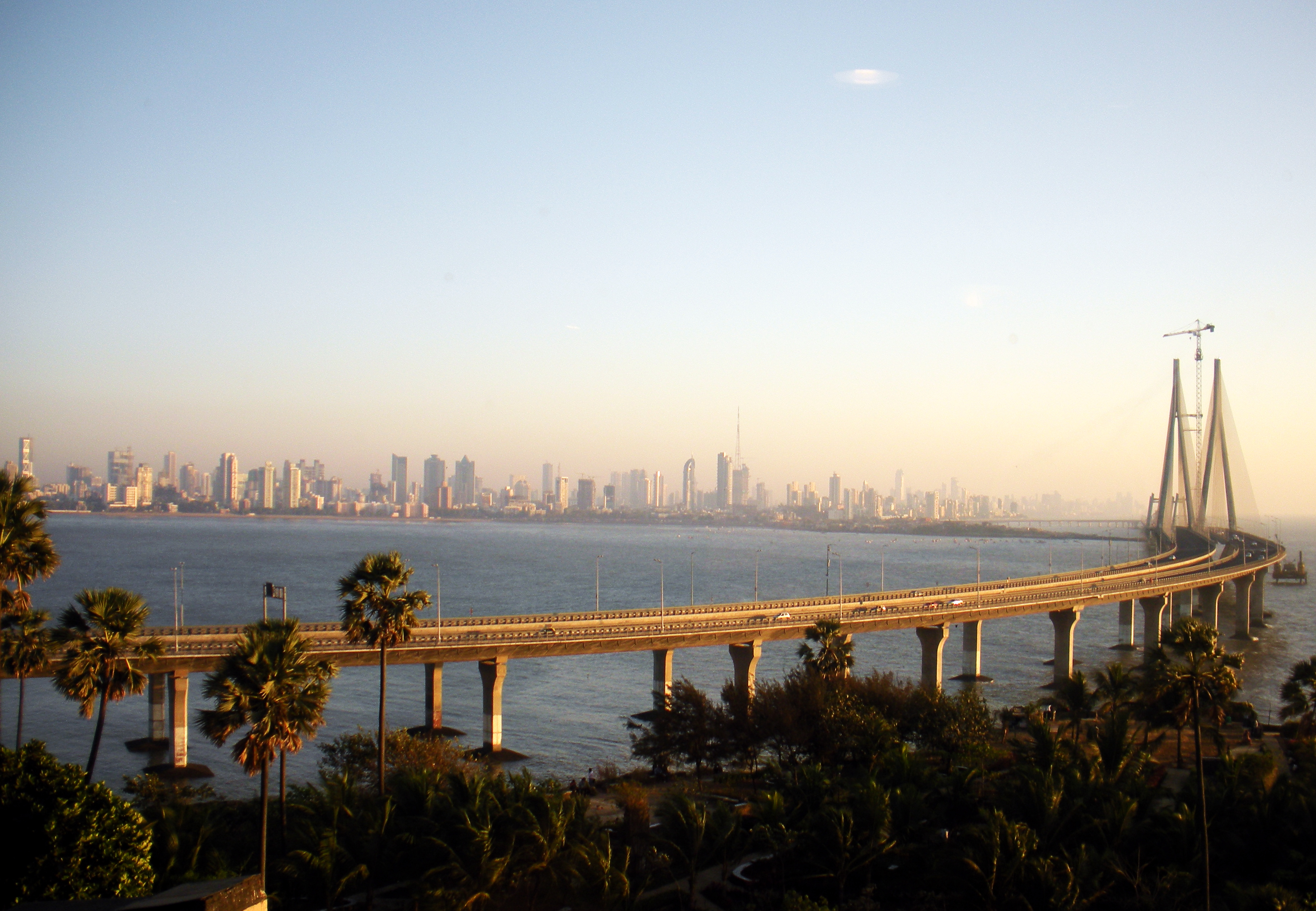 Worli Skyline(Mumbai) with Bandra Worli Sea Link View